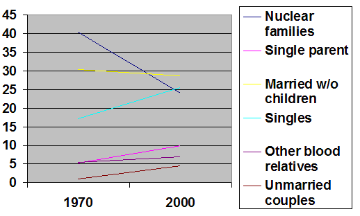 I created the graph myself with data from the sociology book, Marriages, Families & Intimate Relationships by Brian K. Williams, Stacey C. Sawyer, and Carl M. Wahlstrom. Published by Pearson in 2006.